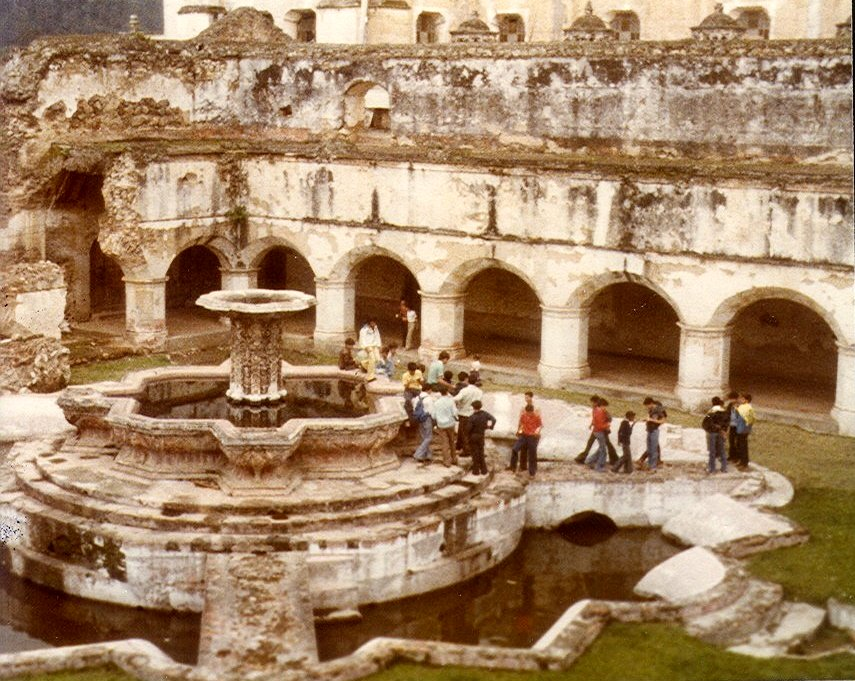 Antigua Guatemala, La Merced patio fountian Photo by Infrogmation, 1979